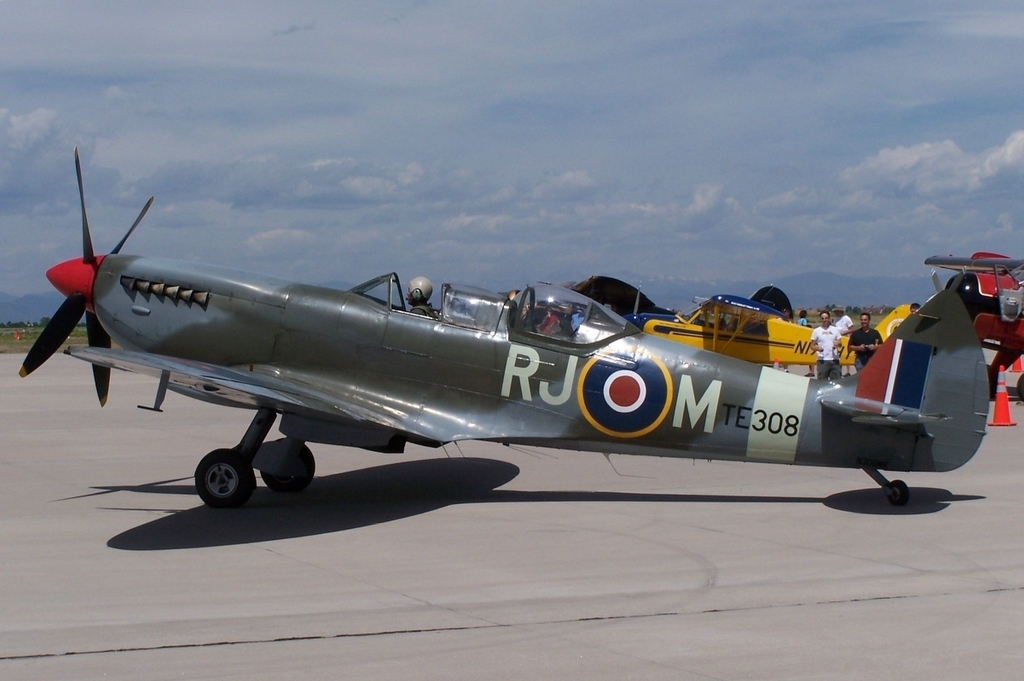 Supermarine Spitfire MarkIX twin